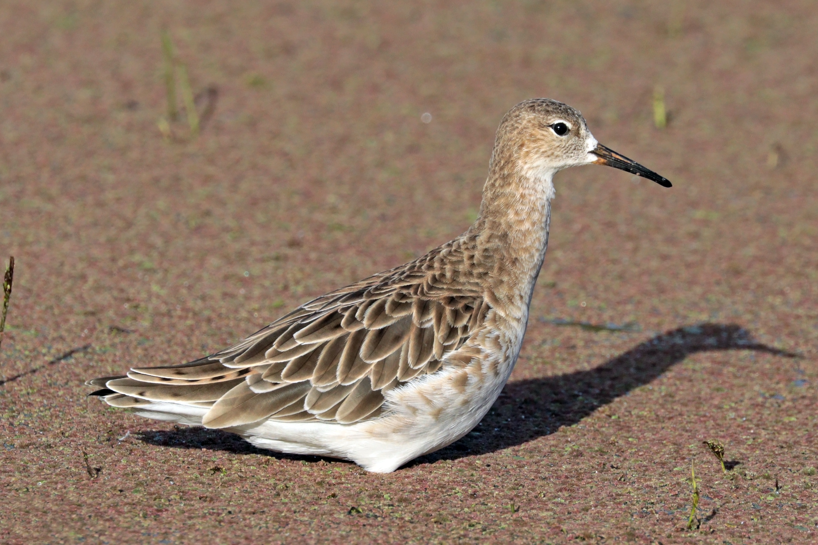 Ruff (Philomachus pugnax) non-breeding, Lake Ziway, Ethiopia